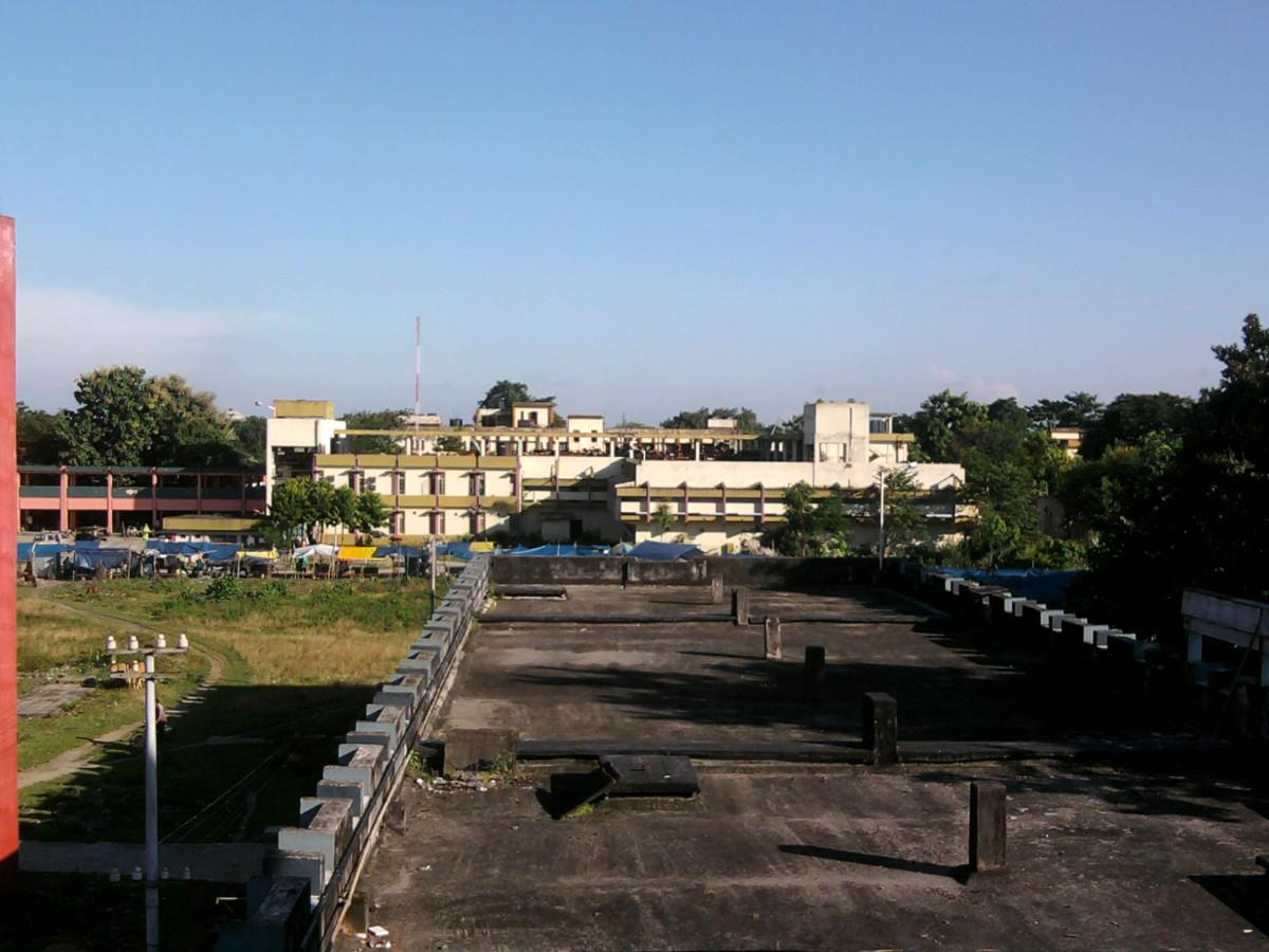 From AD Block Terrace